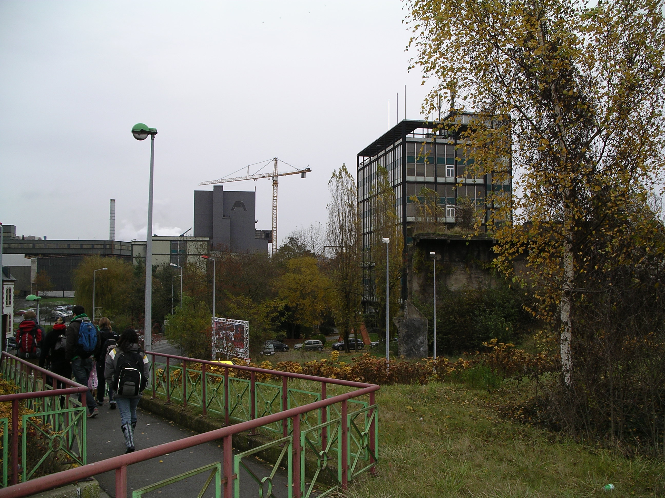 Differdange, Luxembourg. (near railway station) on the right CEPS/INSTEAD building